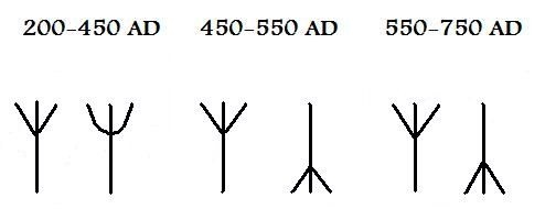 Evolution of the algiz rune.